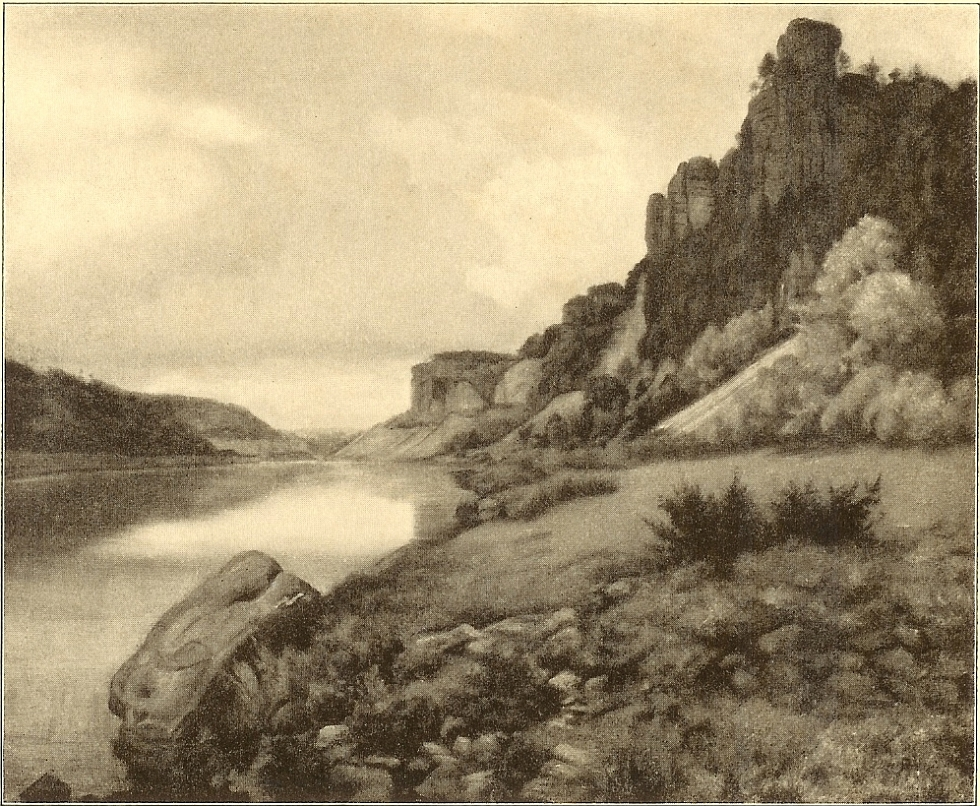 Otto Dörr (1832-1868) - The River Elbe At Bethin